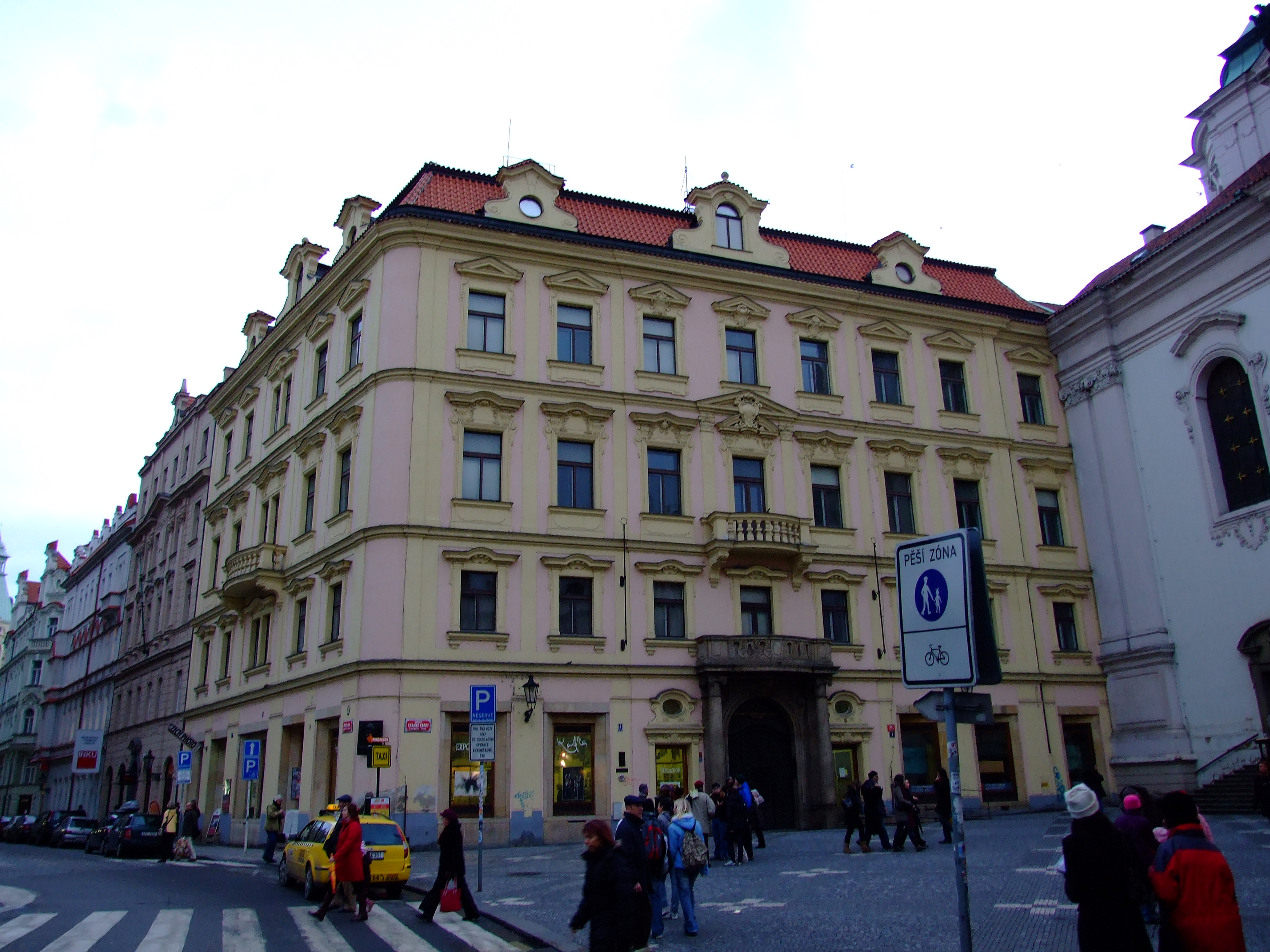 Franz Kafka square in Prague near Old town square